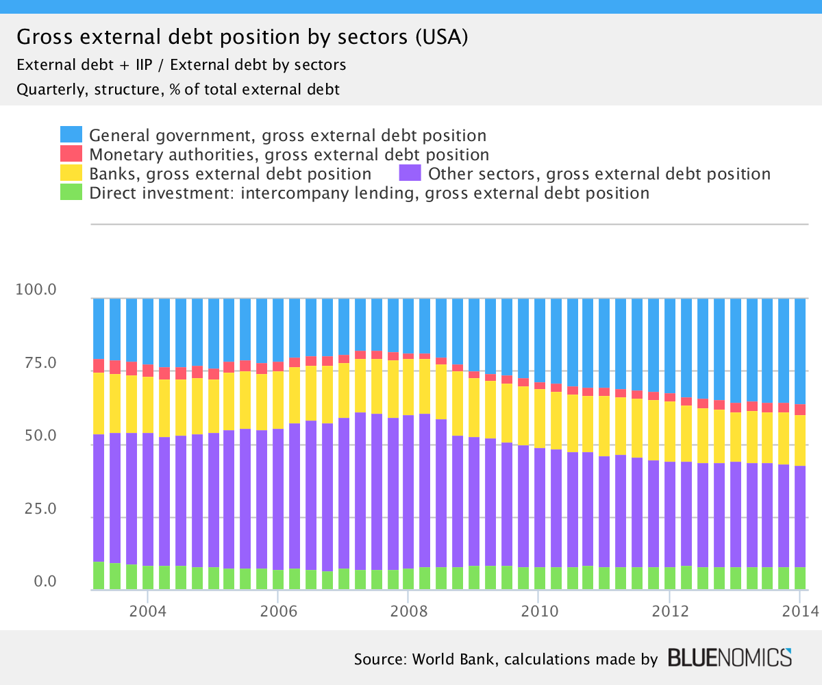 The chart depicts the share of US gross external debt by debtors.